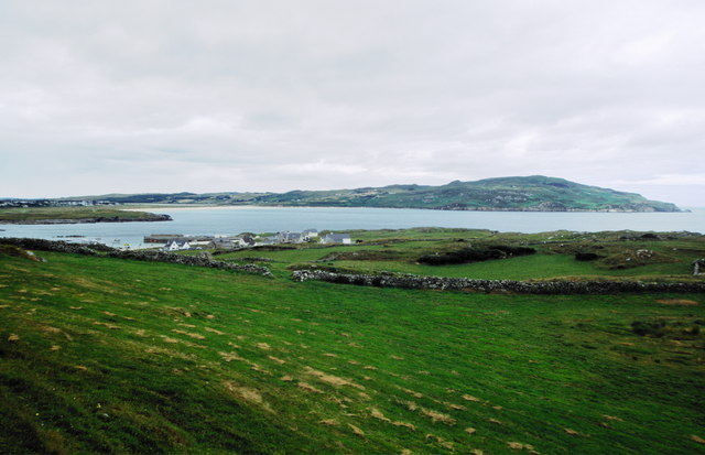 Portnablagh Everything in the foreground is in the square. In the distance is Portnablagh village and the pier.